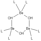 Cyclic hydrolysis product